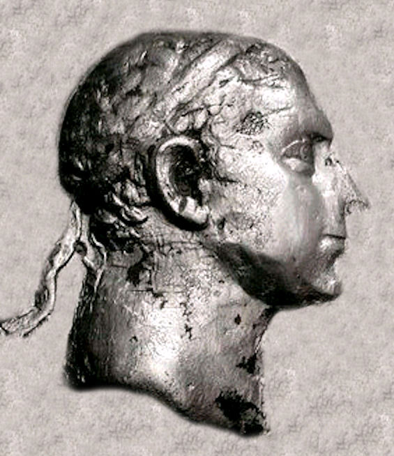 Pantaleon portrait